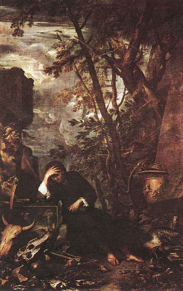 Democritus in Meditation Salvator Rosa (1615-1673) Oil on canvas, 1650 344 x 214 cm Statens Museum for Kunst, Copenhagen